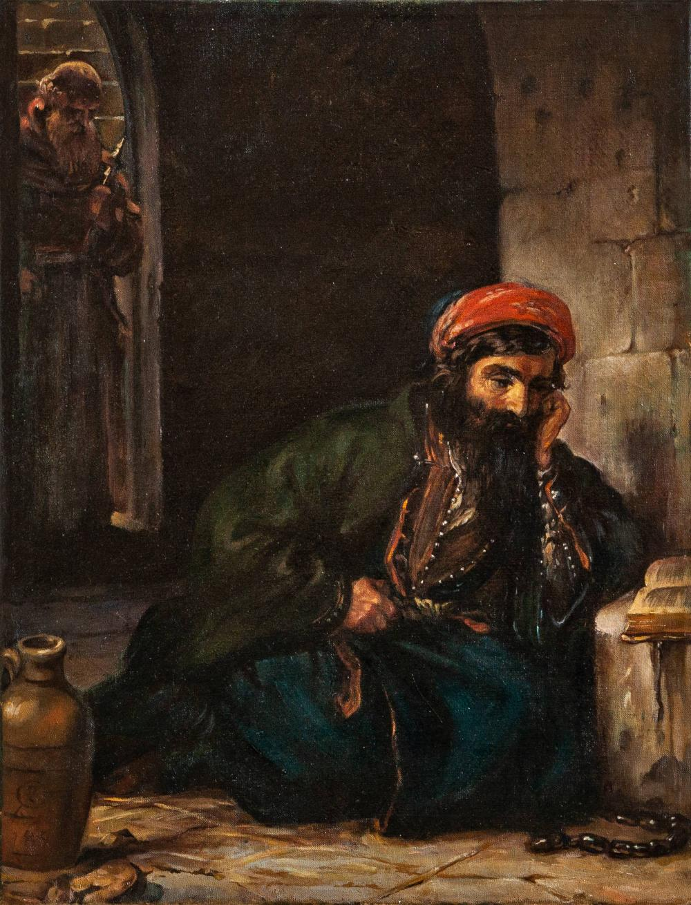 The Damascus Affair: Rabbi preparing his defence from the Talmud, a Capuchin distant in the doorway.